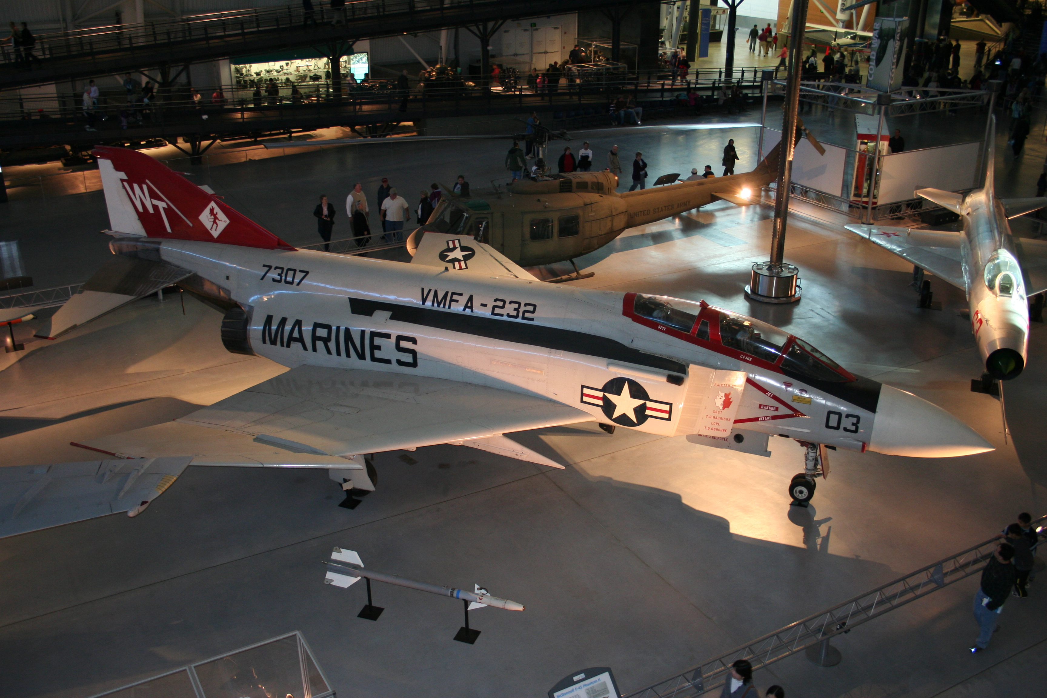 F4-S #157307 at the National Air and Space Museum annex at Dulles International Airport